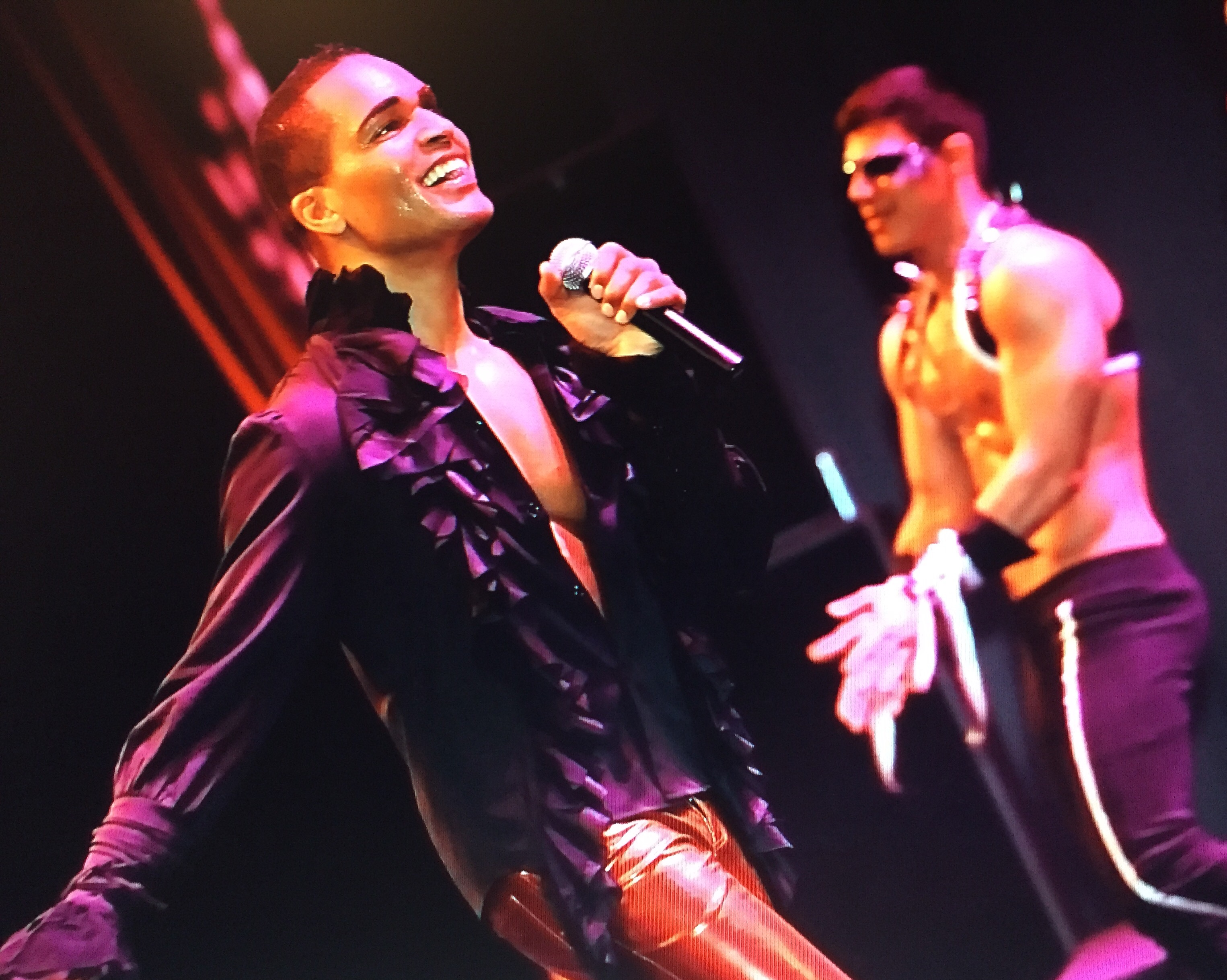 Jimmie Wilson on stage